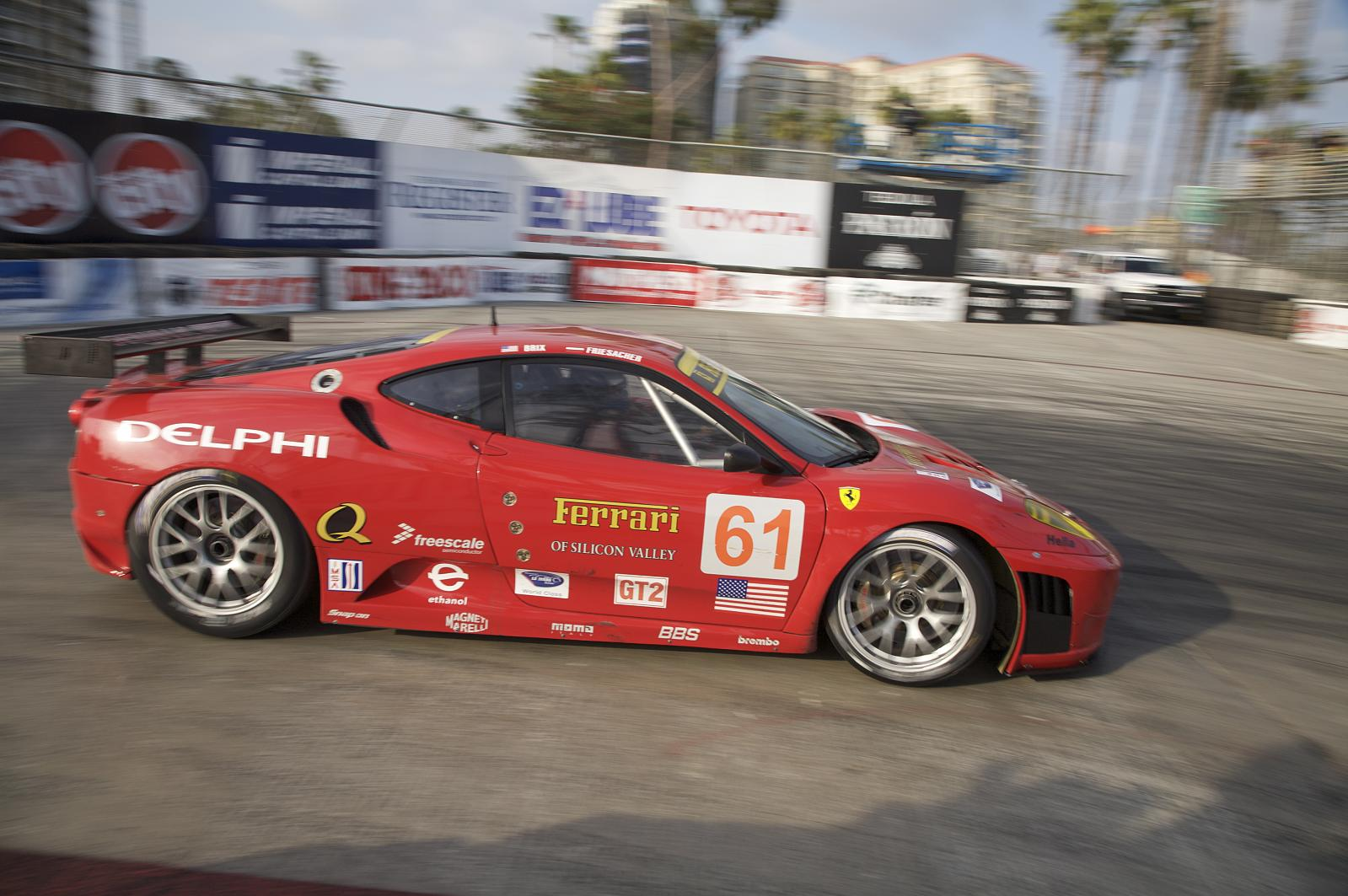 Long Beach Grand Prix ALMS IMSA 2008